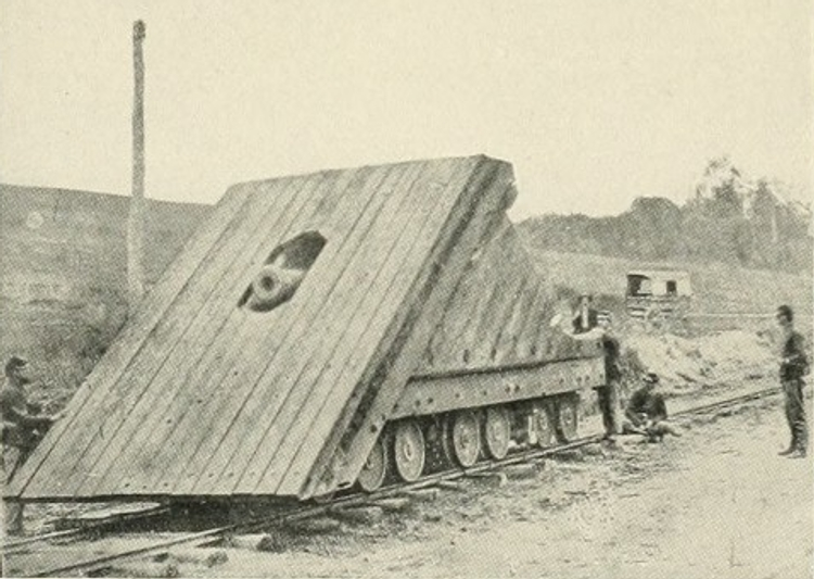 The Union's Moving Battery armed with a siege mortar on the City Point Railroad during the Siege of Petersburg.